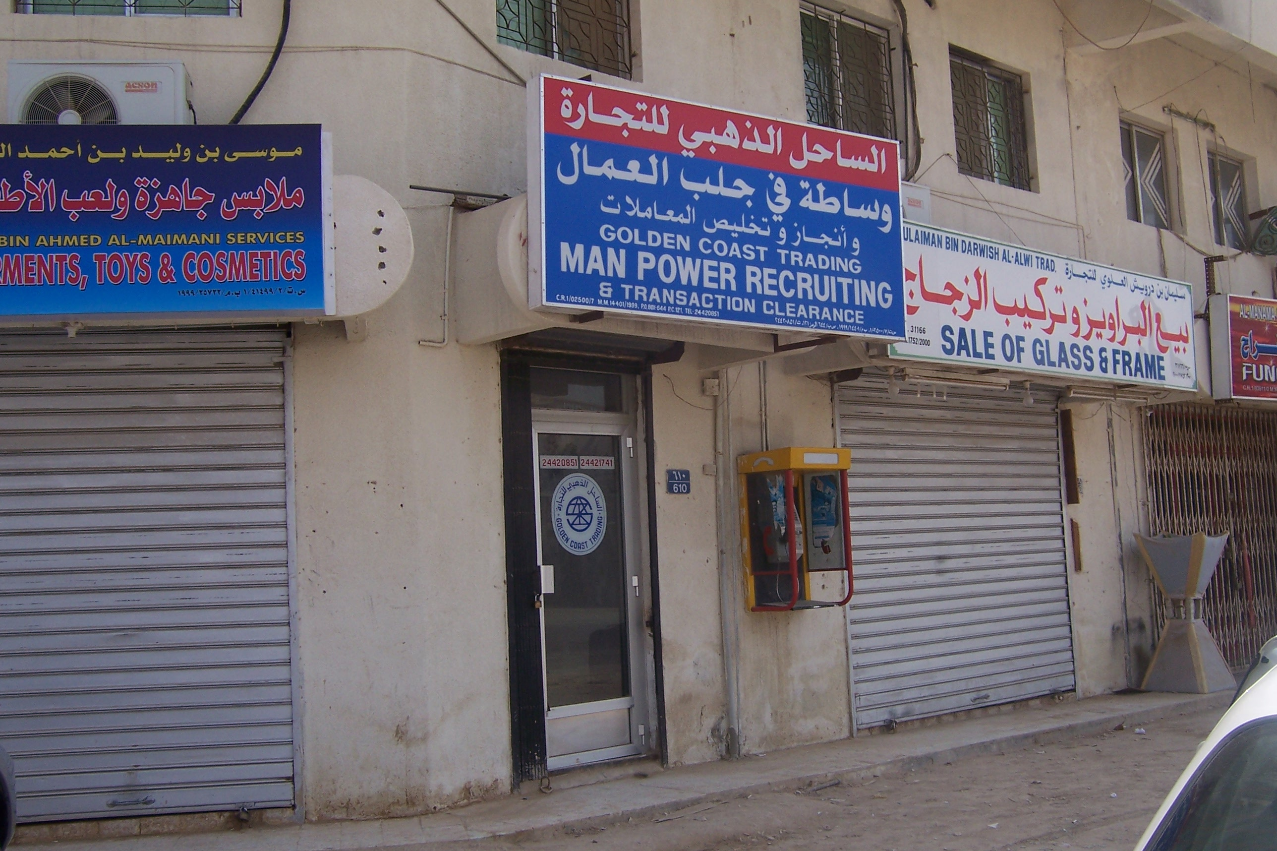 GOLDEN COAST MANPOWER OMAN